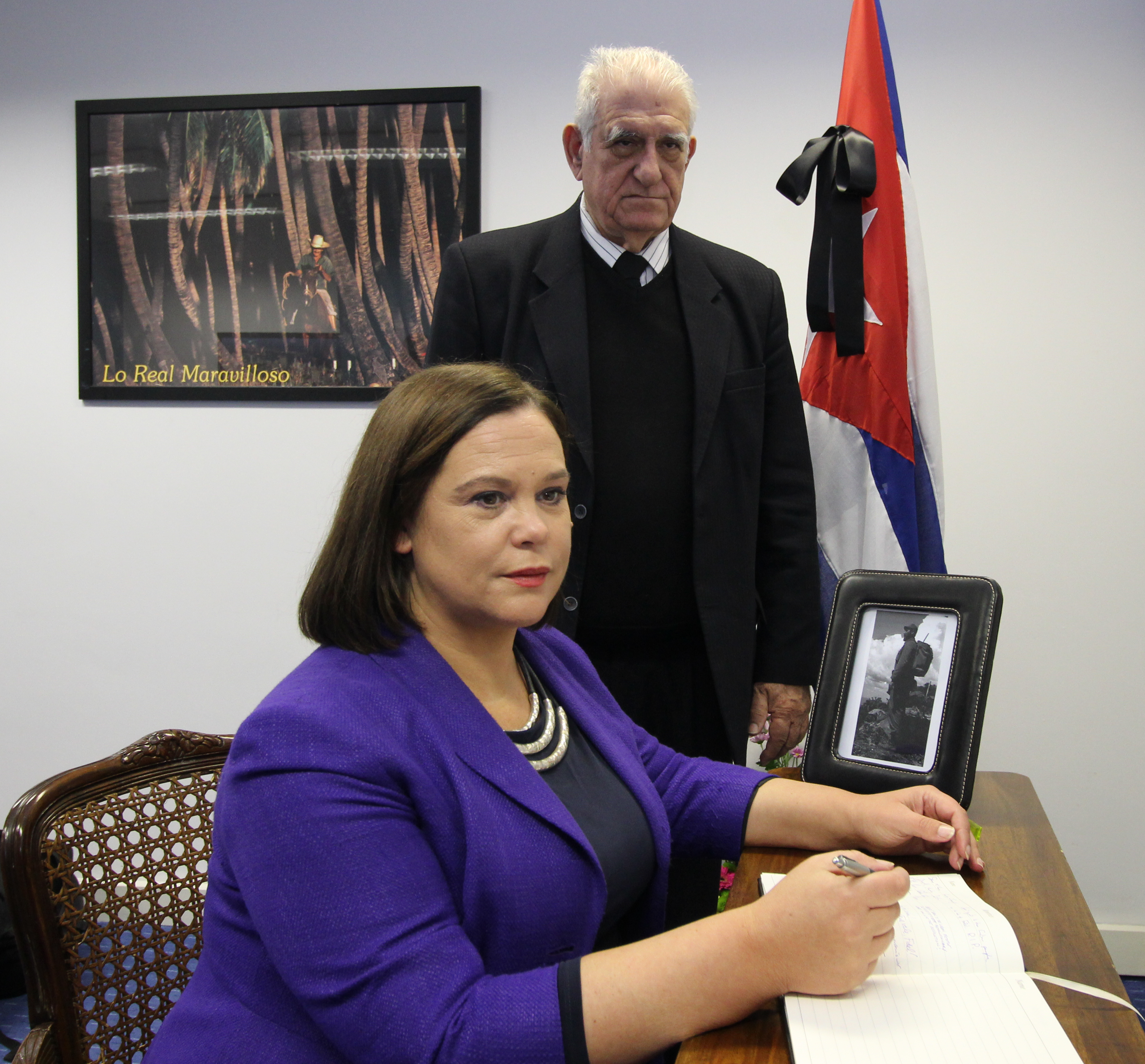 Mary Lou McDonald with Dr Hermes Herrera Hernández signing the book of condolence to Fidel Castro at the Cuban Embassy in Dublin.